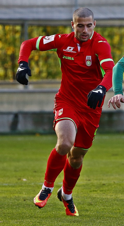 Islamnur Abdulavov playing for FC Ufa in a friendly game against FC Lokomotiv Moscow.